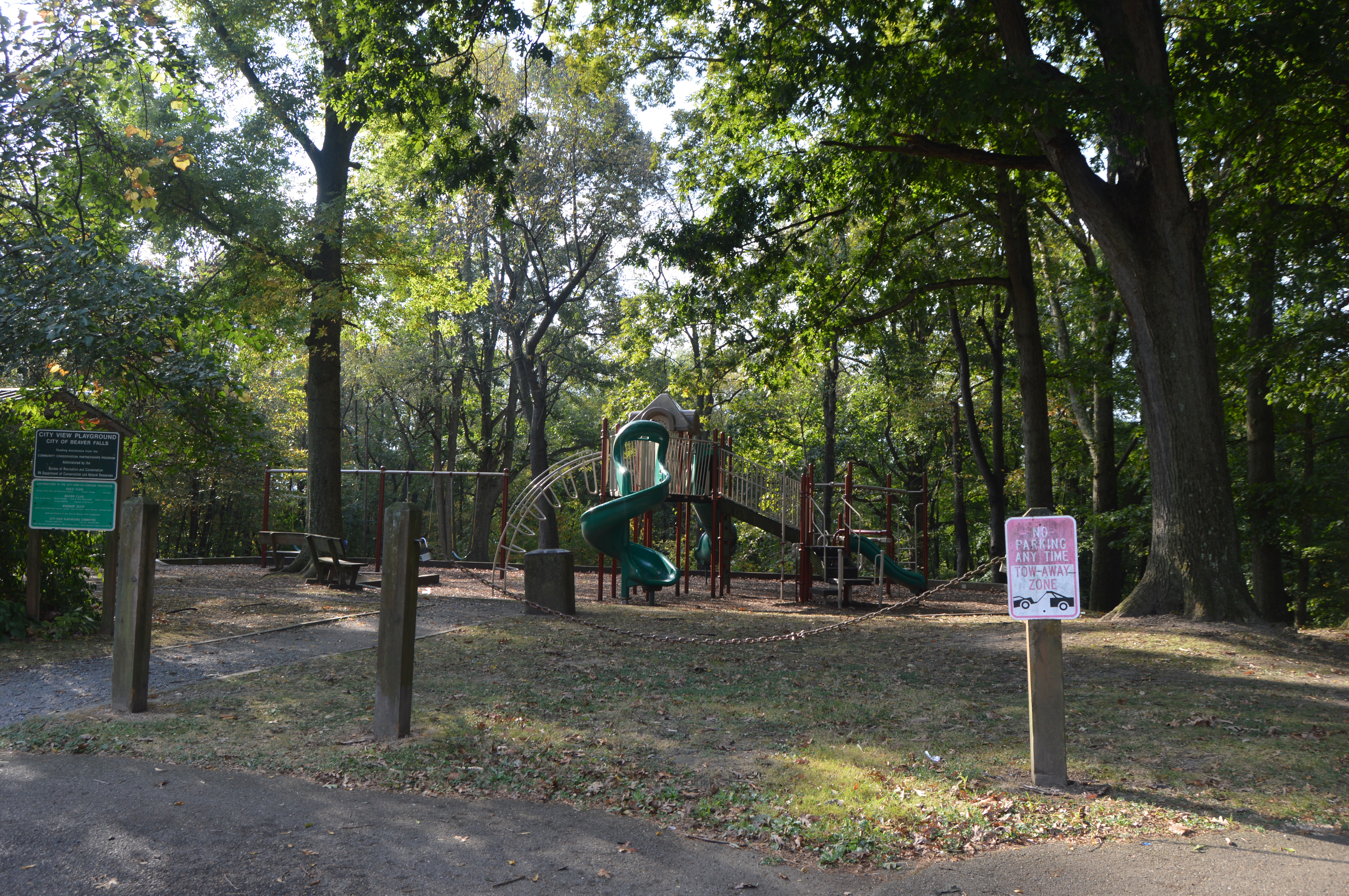 Overview of City View Playground, located at the southern end of Eighth Avenue in the College Hill neighborhood of Beaver Falls, Pennsylvania, United States. The site was previously a cemetery for Chinese workers at the Beaver Falls Cutlery Company.